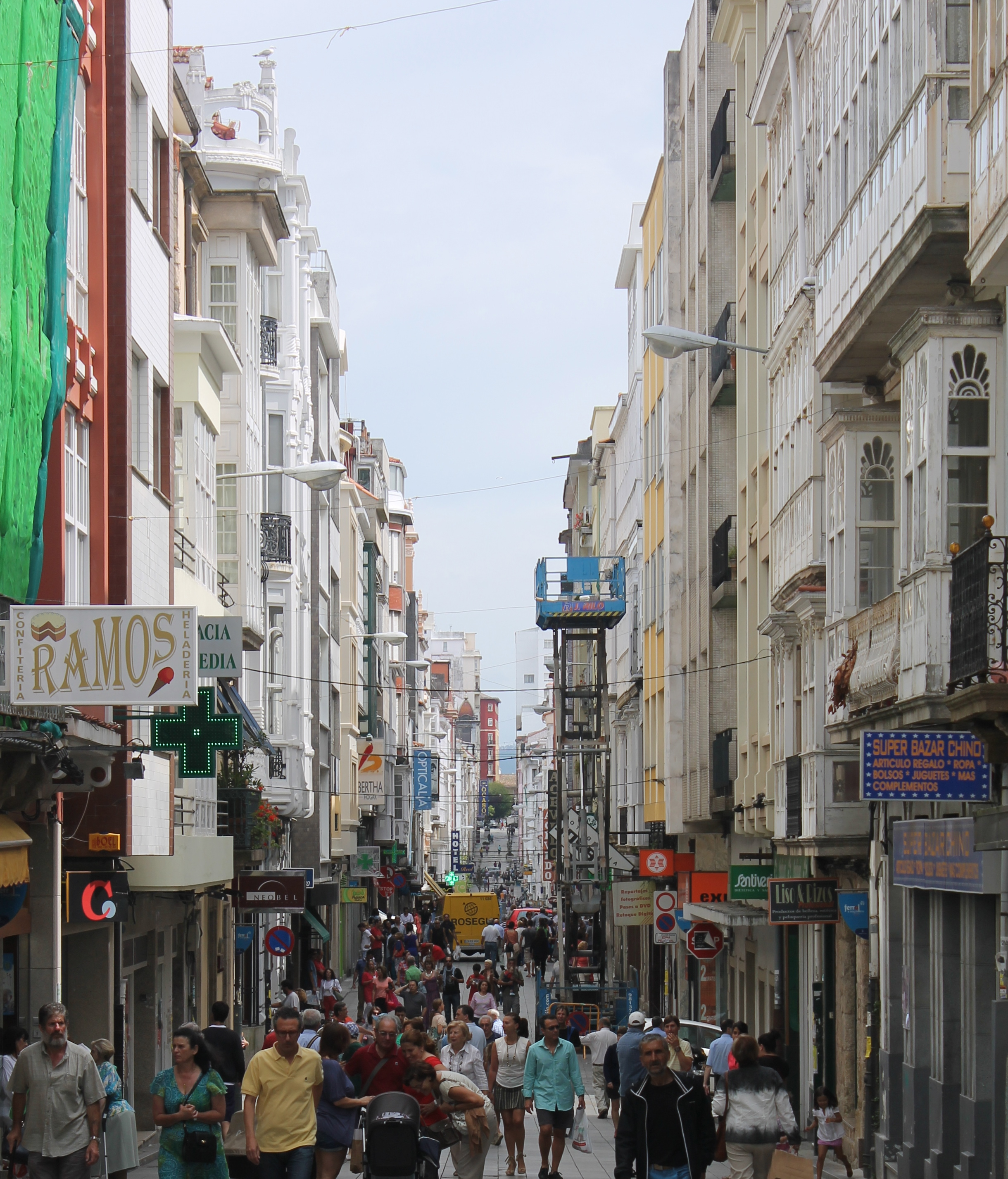 Calle Real in Ferrol, Spain